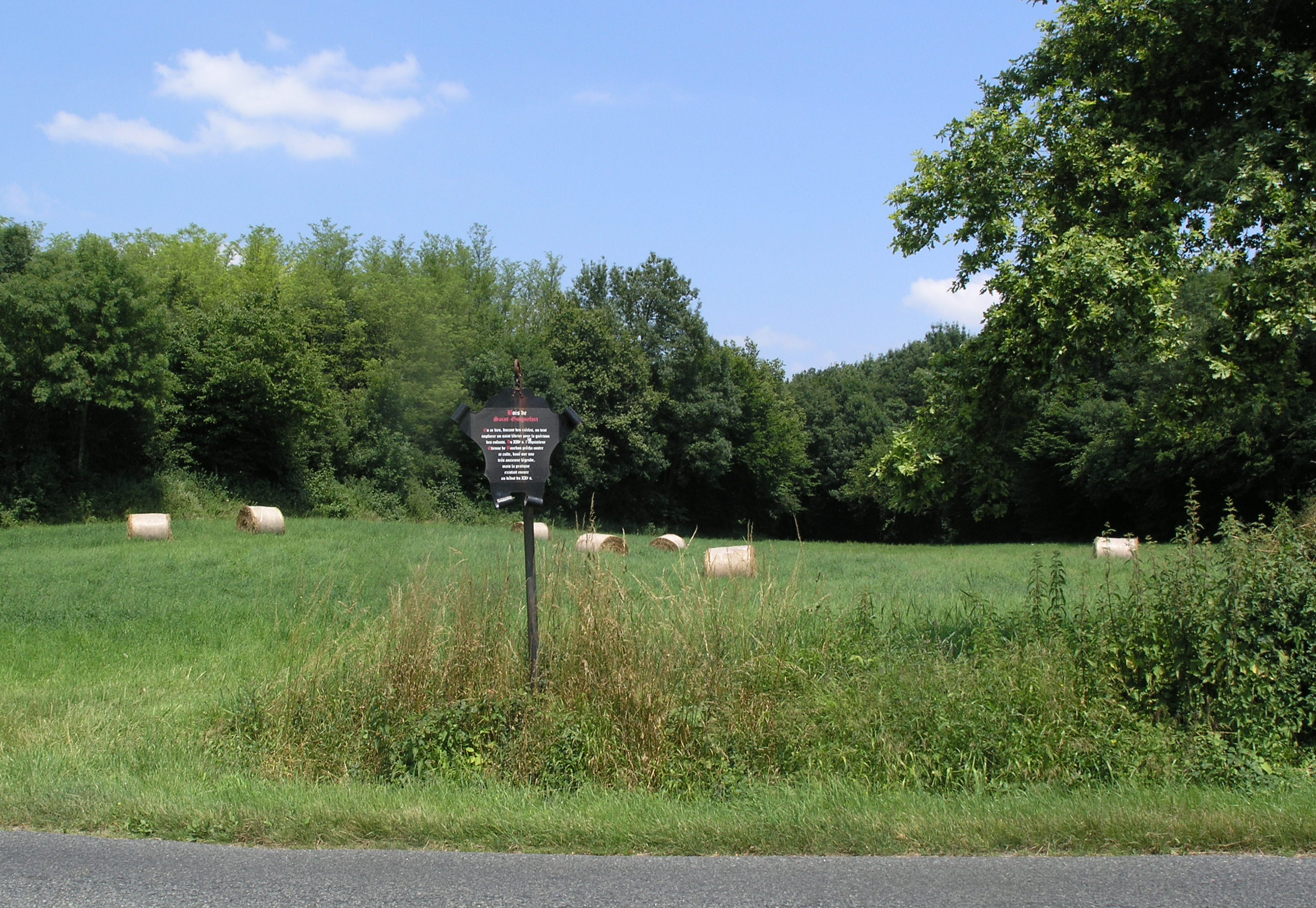 Bois de Saint-Guignefort, Sandrans, Dépt. Ain, France